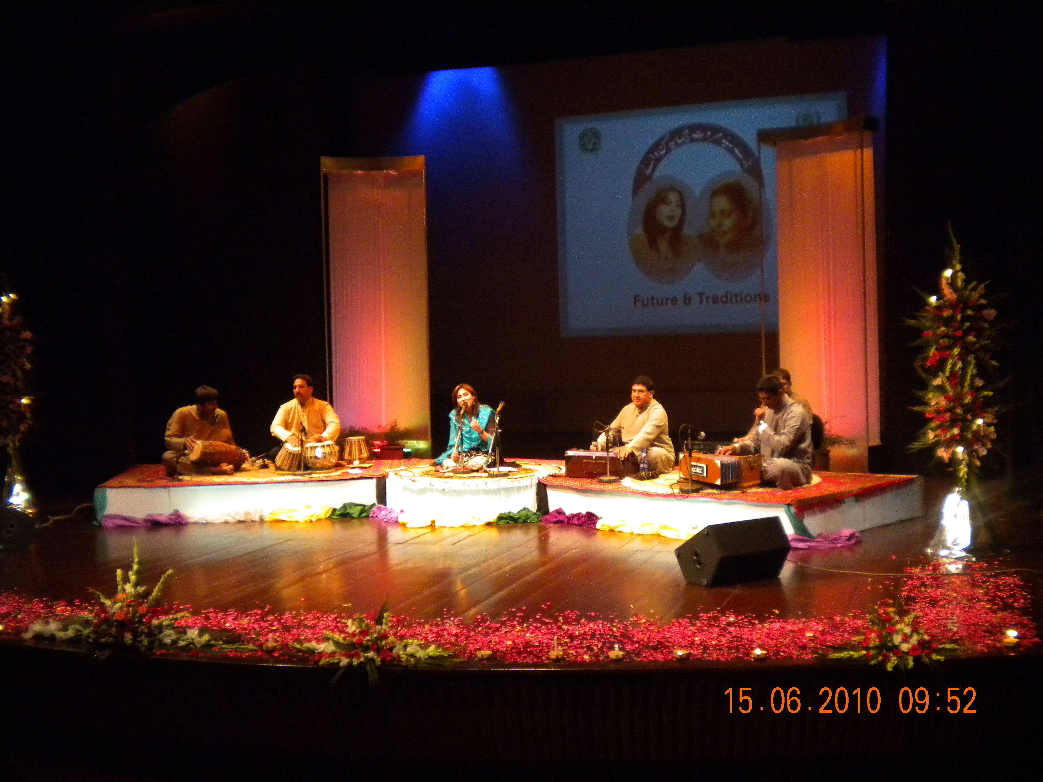 Rahat Multani, a Pakistani folk singer, singing at National Art Gallery, Islamabad, Pakistan